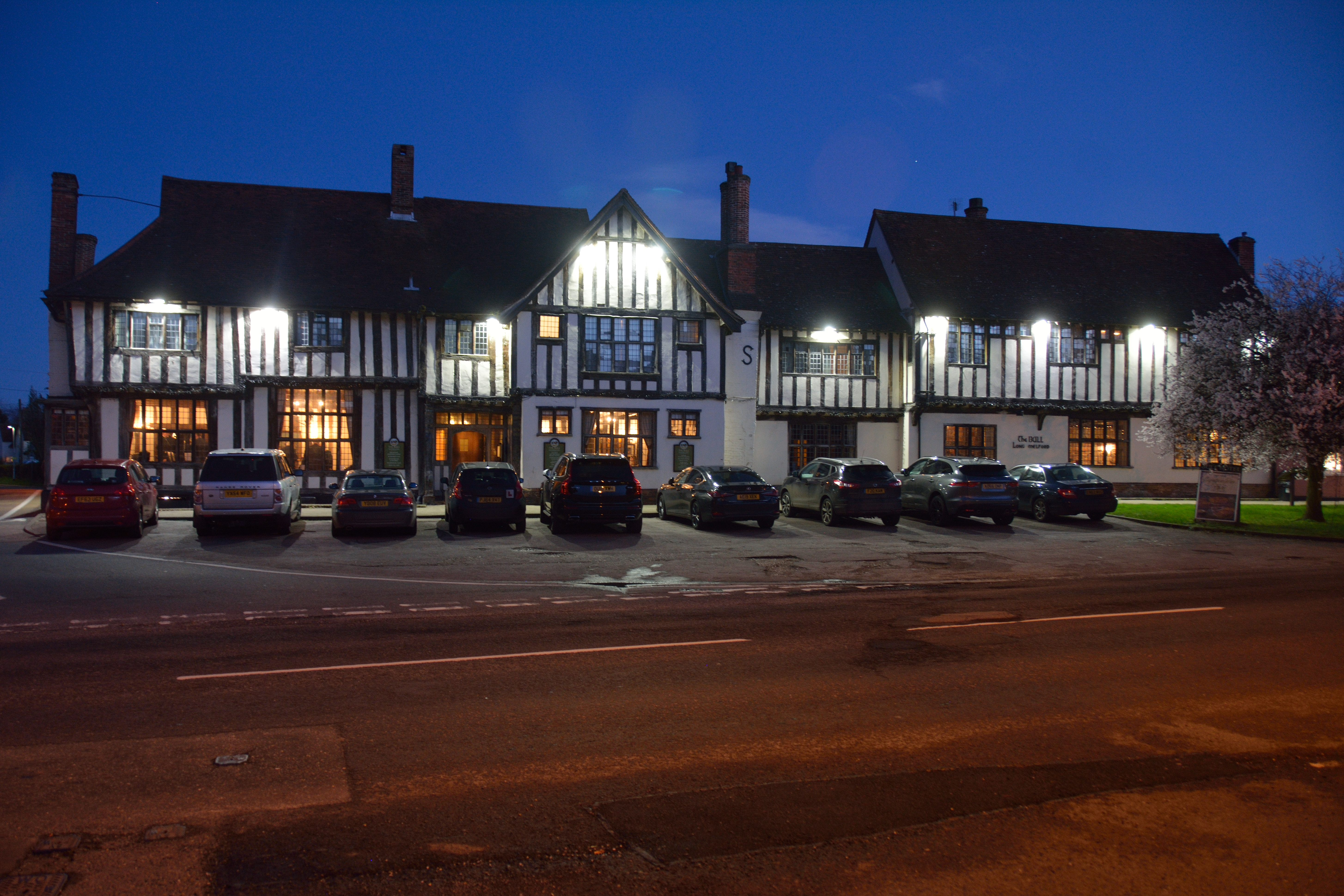 Exterior of The Bull Hotel in Long Melford, Suffolk, England